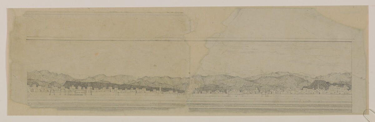 One of the two views of the Red Sea coastline by Thomas Elwon (1793/4–1835). 115 x 420 mm, Pencil on paper. British Library: India Office Records and Private Papers.